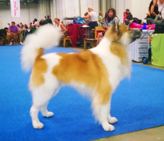 Thai Bangkaew Dog